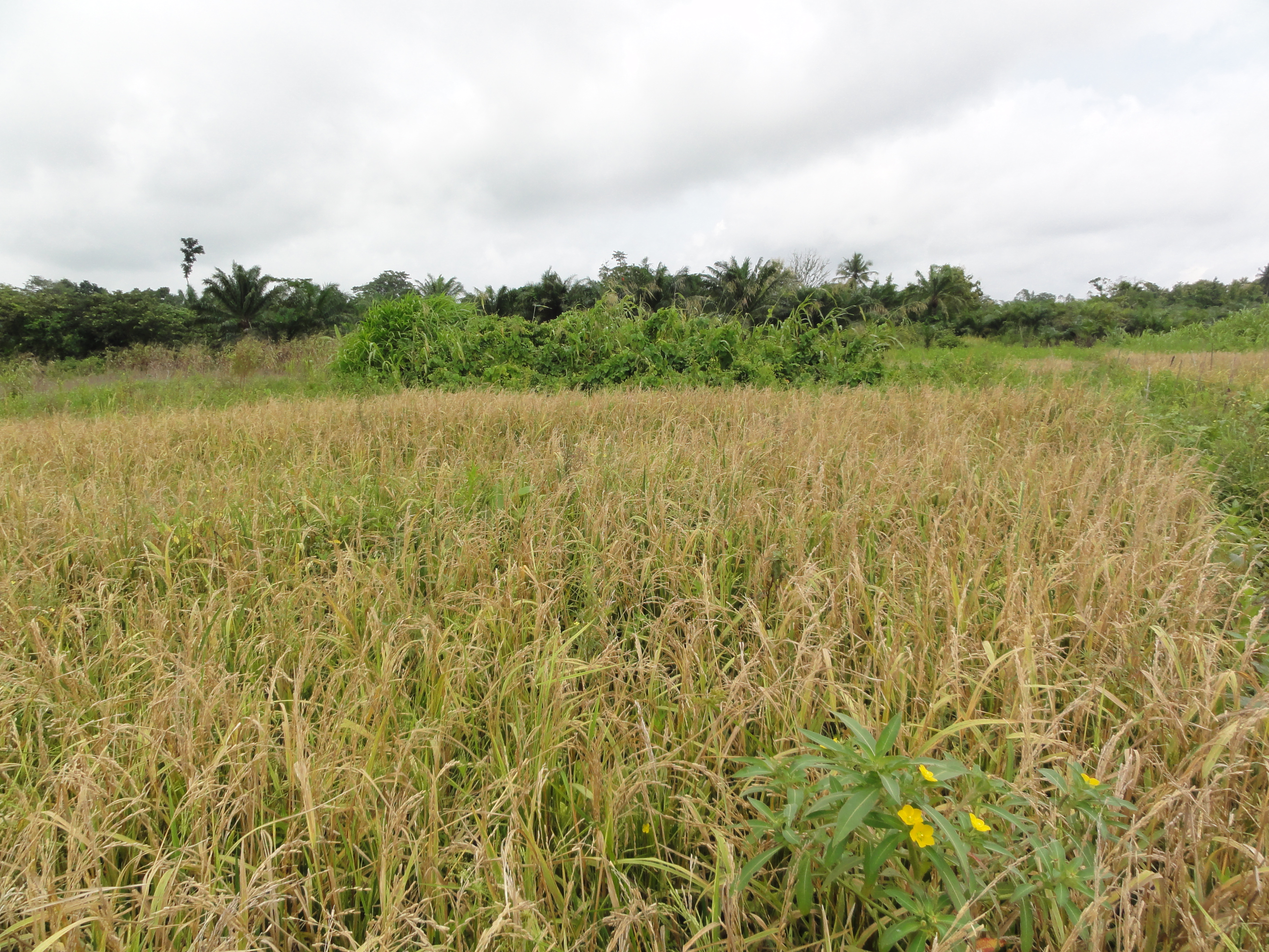 Rice cultivation in Benin